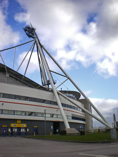 Reebok Stadium